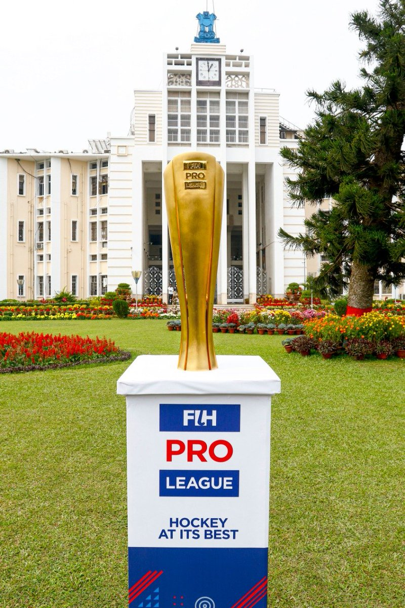 Tweet Text: Welcome #FIHProLeague trophy in #Odisha ahead of the second phase of Team India’s Pro League matches at #KalingaStadium this weekend. Odisha’s special bond with hockey continues as thousands of hockey fans set to witness yet another epic battle. IndiaKaGame OdishaForHockey